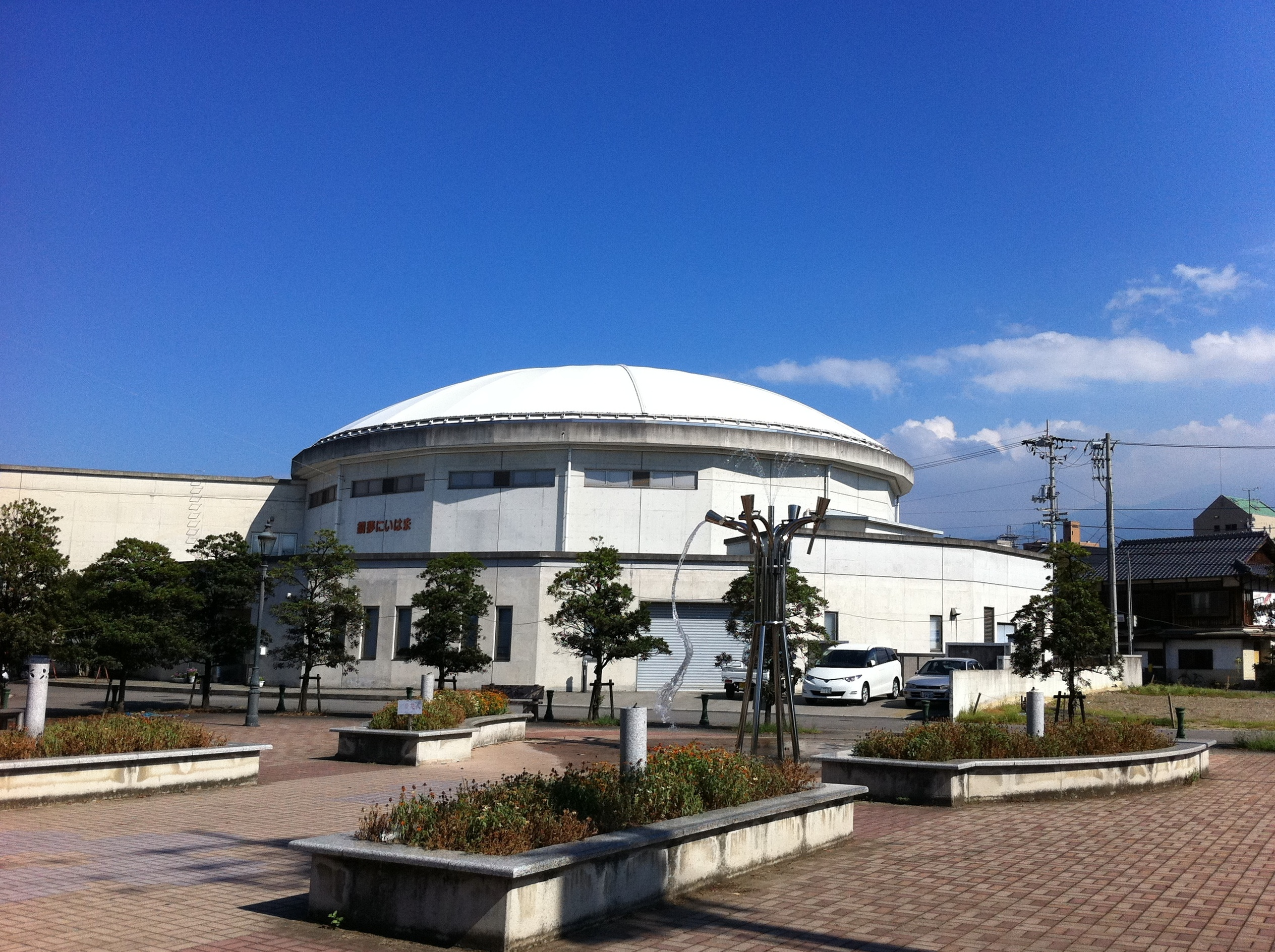 DOME Niihama in Niihama, Ehime pref., Japan.